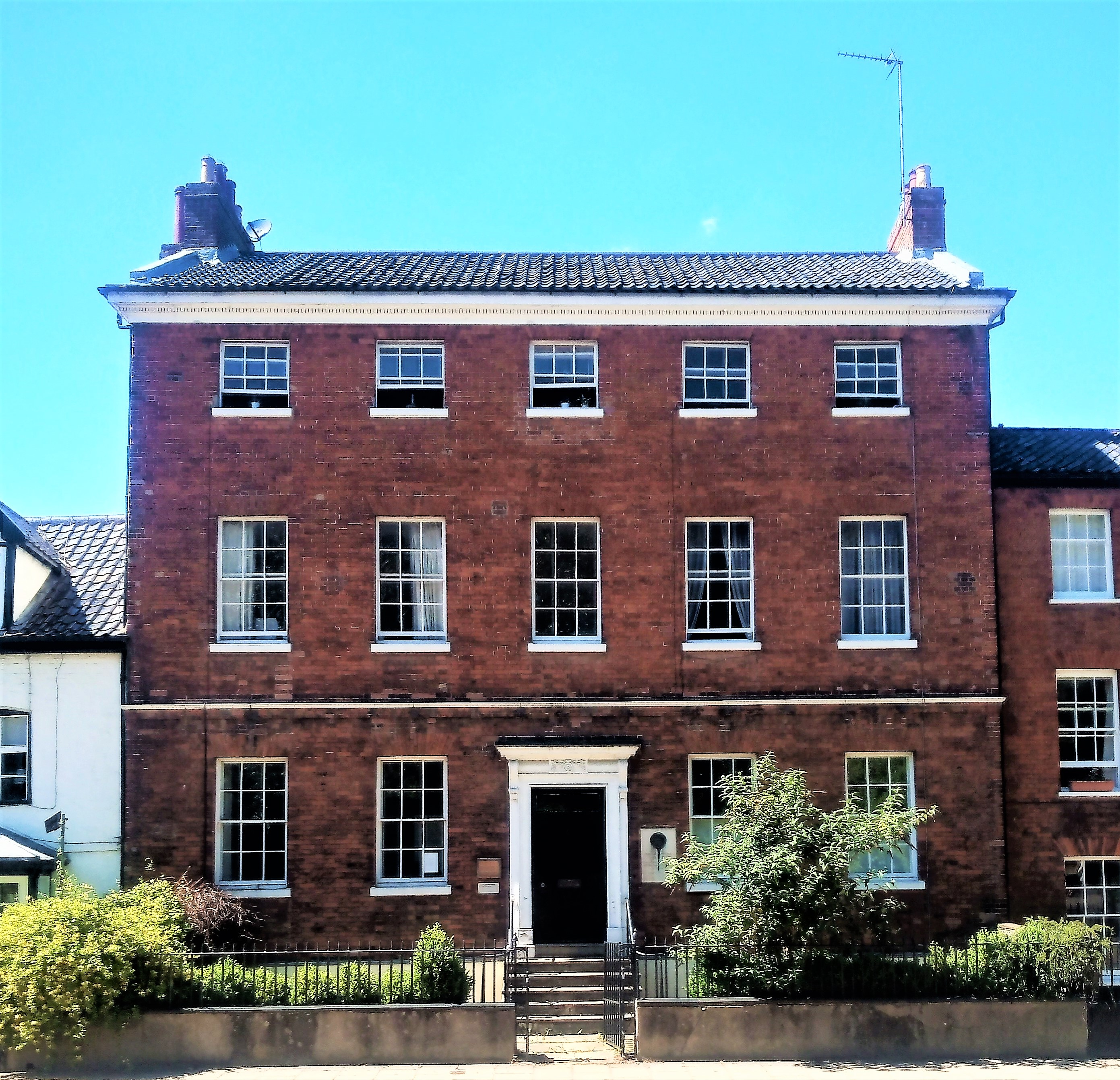 John Sell Cotman's house in St Martin's Plain, Norwich